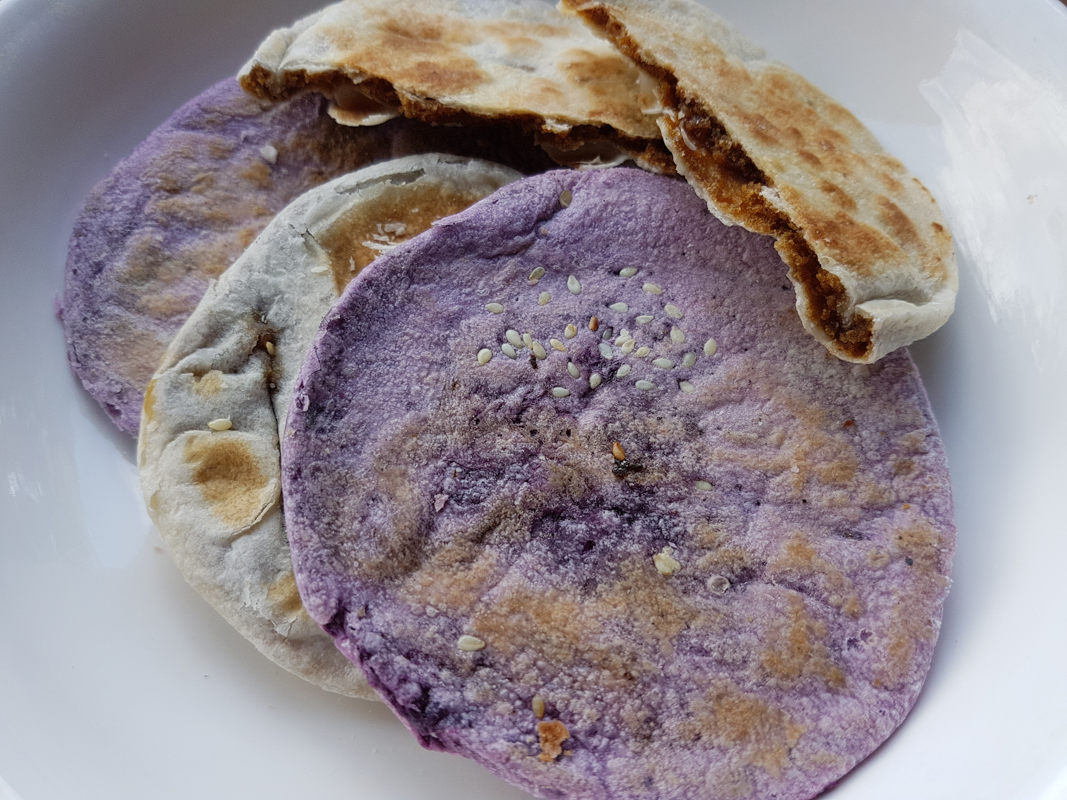 Piaya flatbread from the Philippines. In both original muscovado (unrefined brown sugar) and ube (purple yam) fillings.